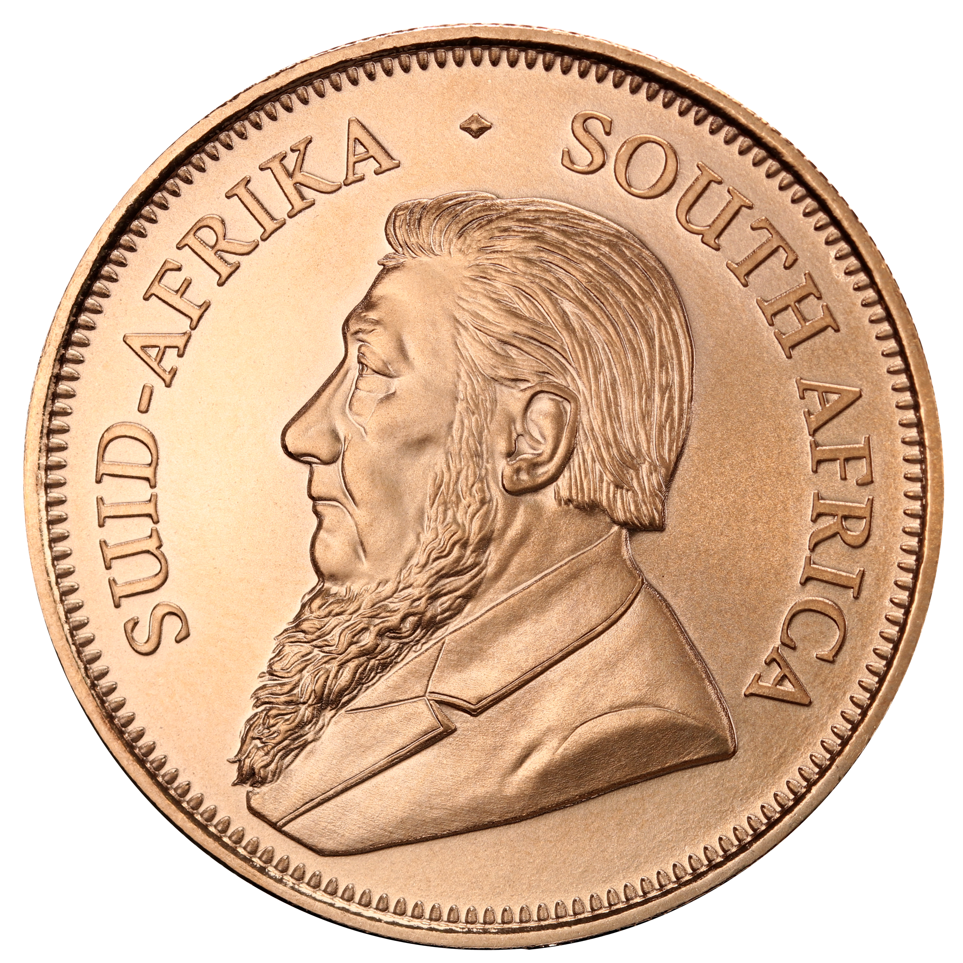 Reverse of the 1 oz Krugerrand 2017 gold coin.